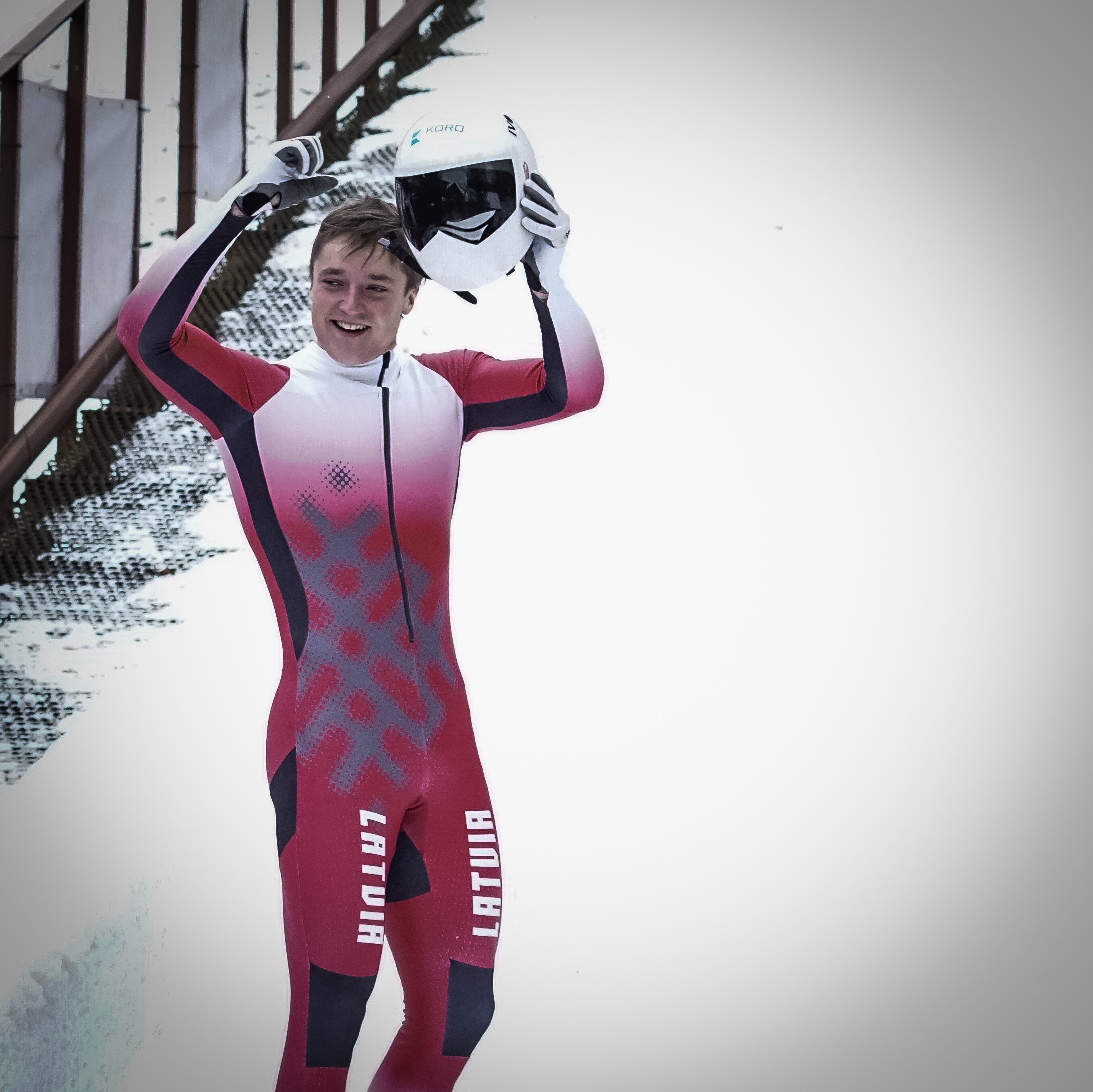 International Bobsleigh & Skeleton FederationJunior World Championships 2017 (Sigulda in Latvia is the World Championships venue). Ivo Steinbergs after finish run.